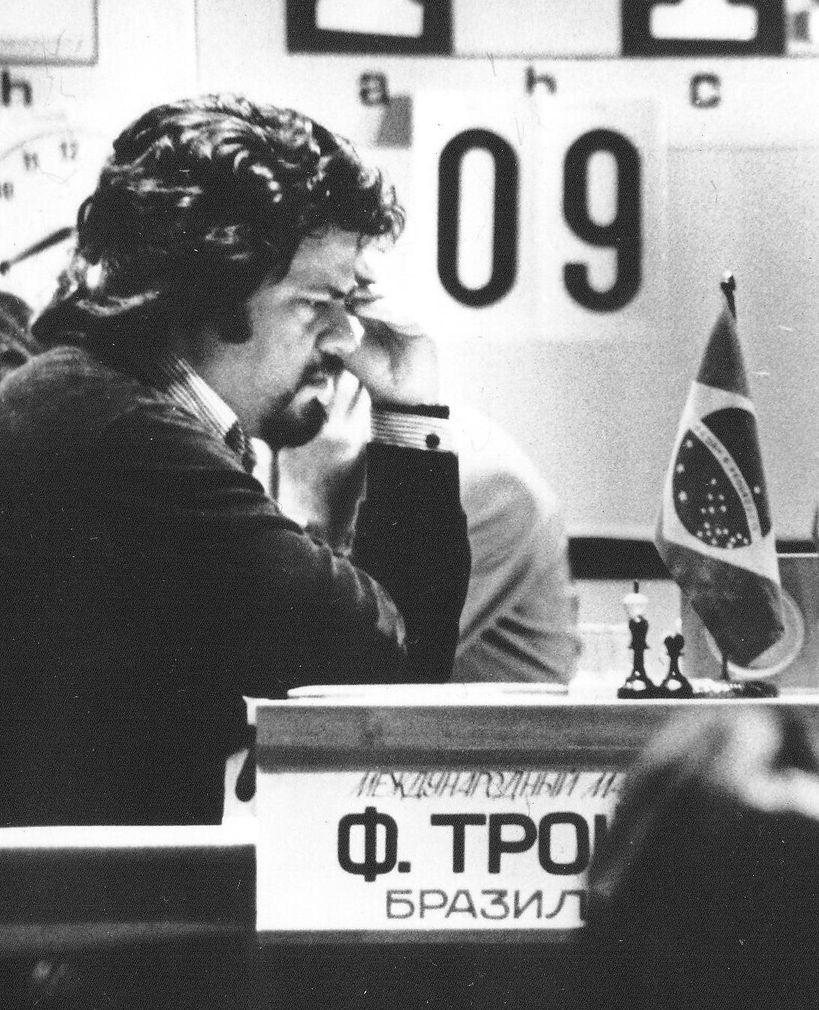 MI Francisco Trois palyint at Riga Interzonal, Latvia, 1978.